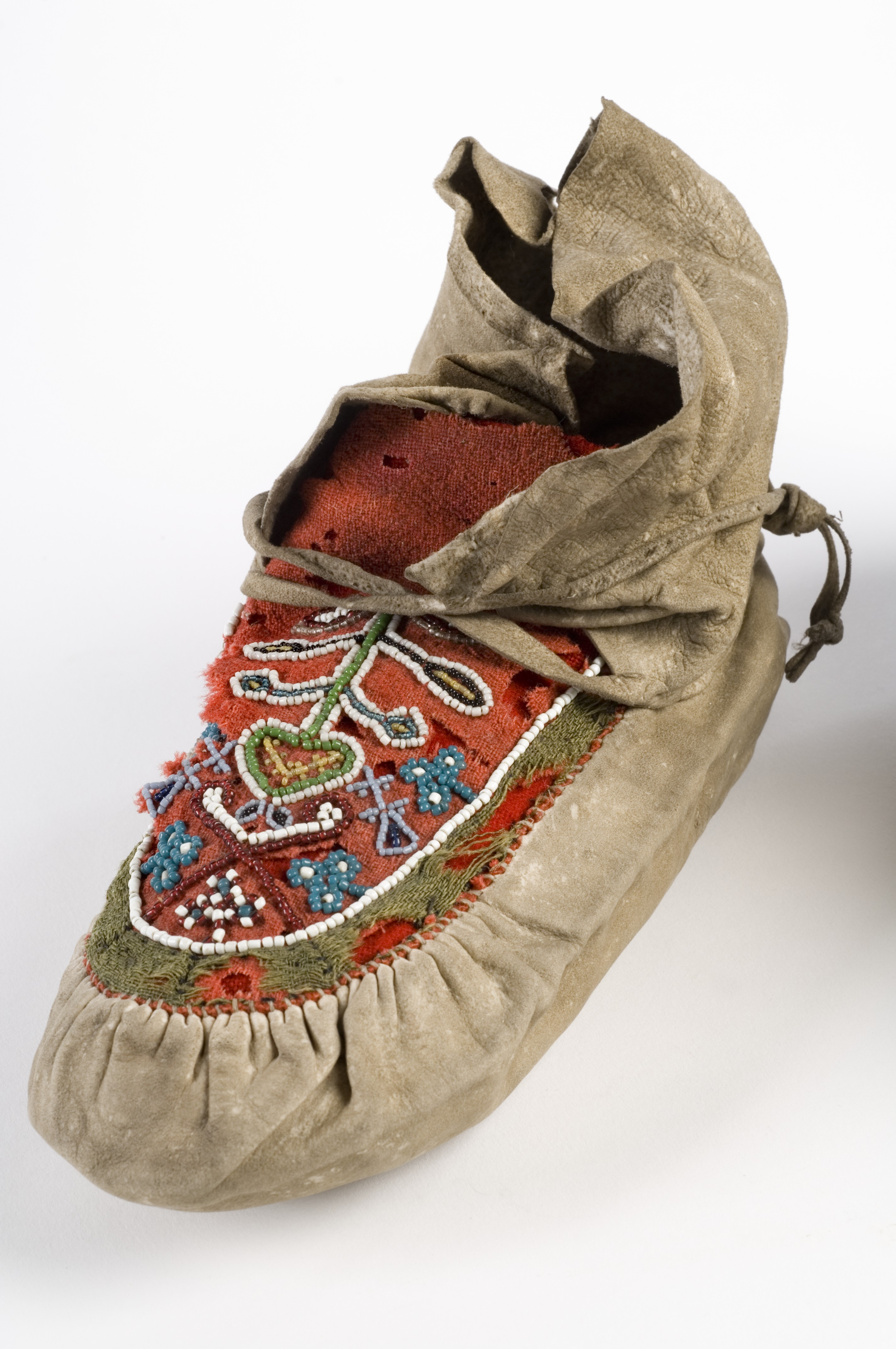 It is said that these moccasins were worn by Florence Nightingale whilst she worked at Scutari. Wellcome Images Keywords: Nurses; Crimean War; Nurse; Nursing; Florence Nightingale